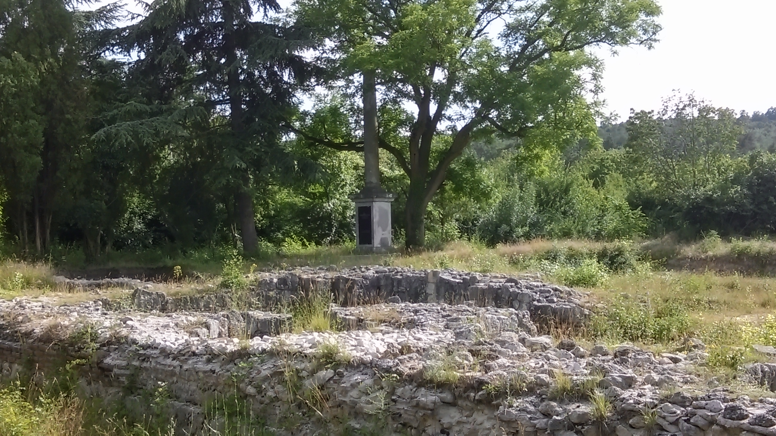 Hermann Škorpil is buried in his own archeological site near Asparouhovo, Varna, Bulgaria